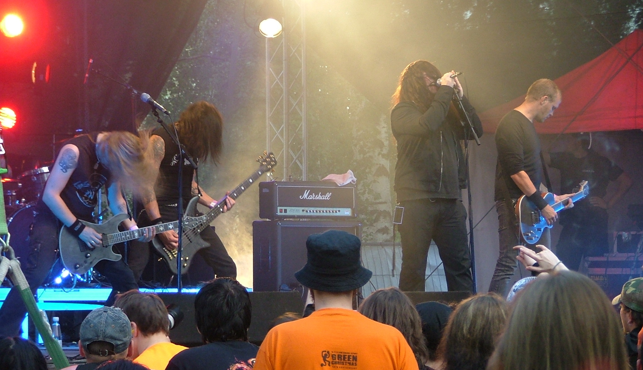 Swedish metal band Katatonia in Kuopio at Rockcock-musicfestival